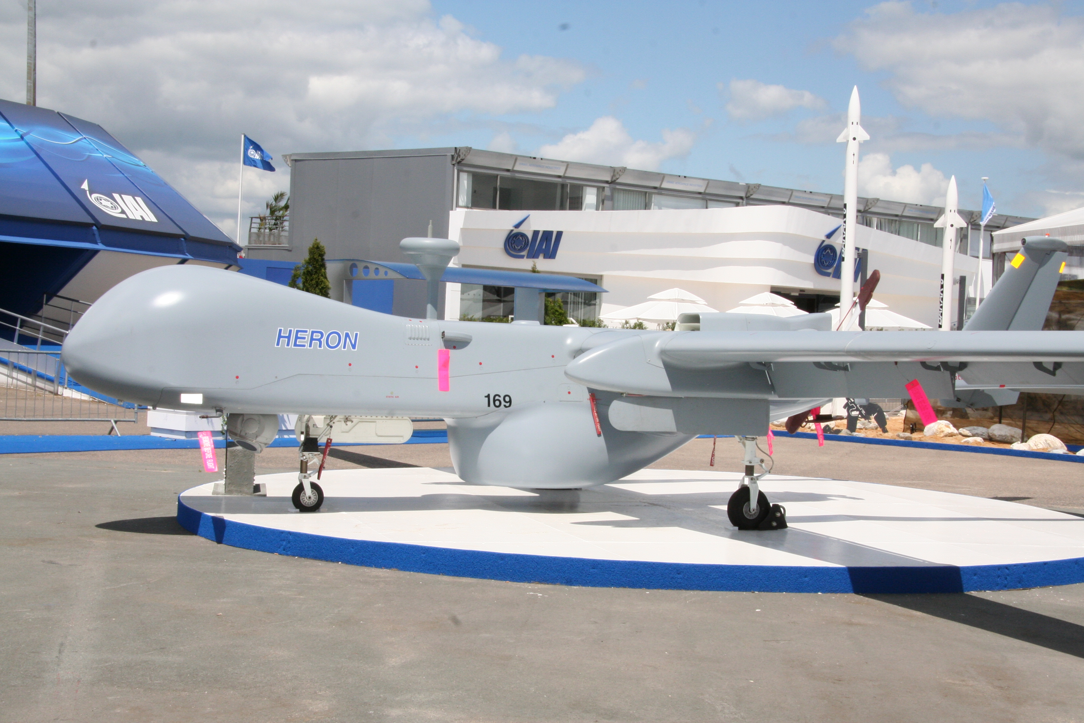 IAI Heron - Paris Air Show 2009